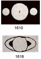 Sketches of Saturn by Galileo in 1610 en 1616.